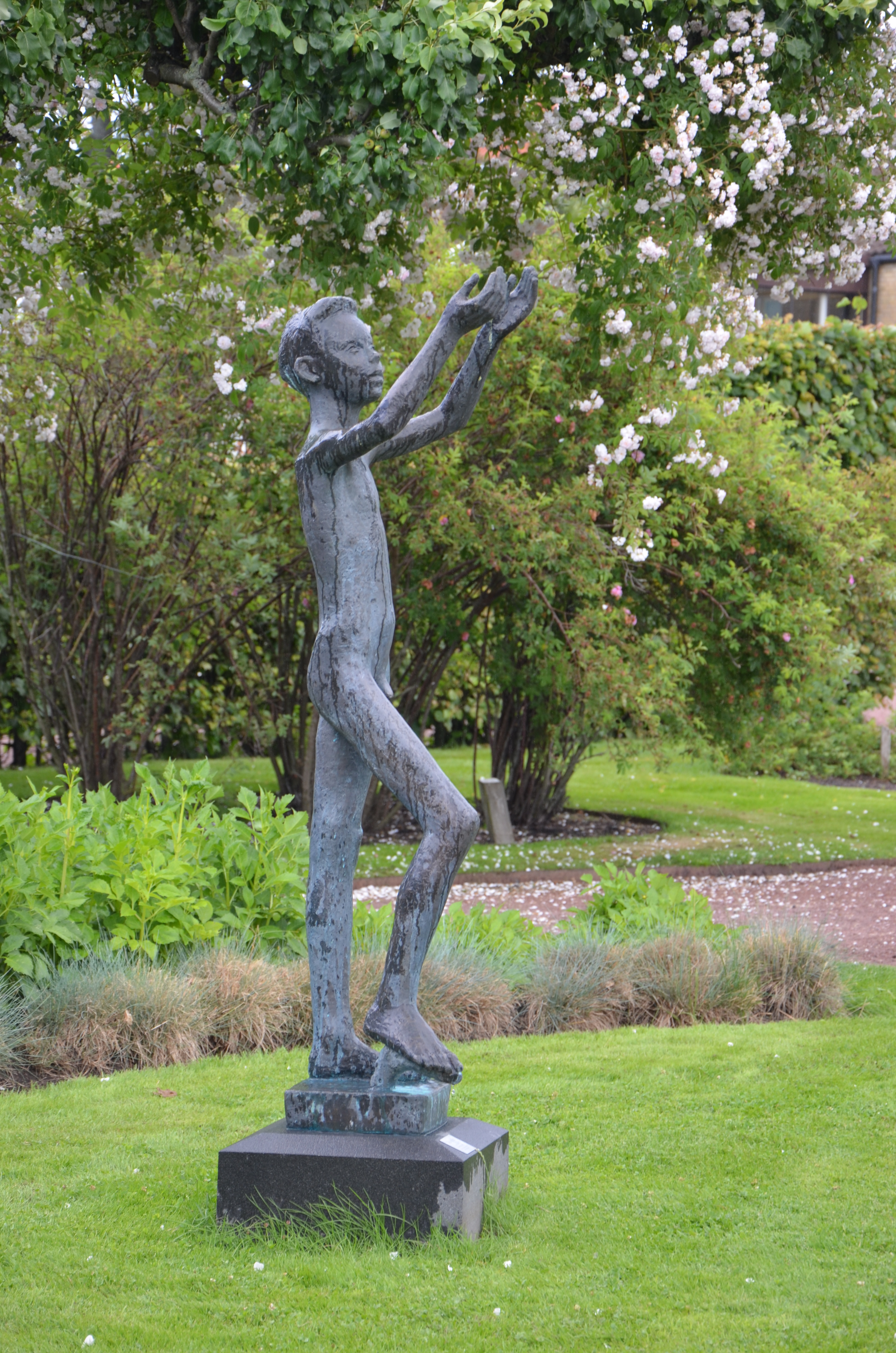 Sonja Katzin´s Solfångaren, Rose garden, Rosenlund, Jönköping